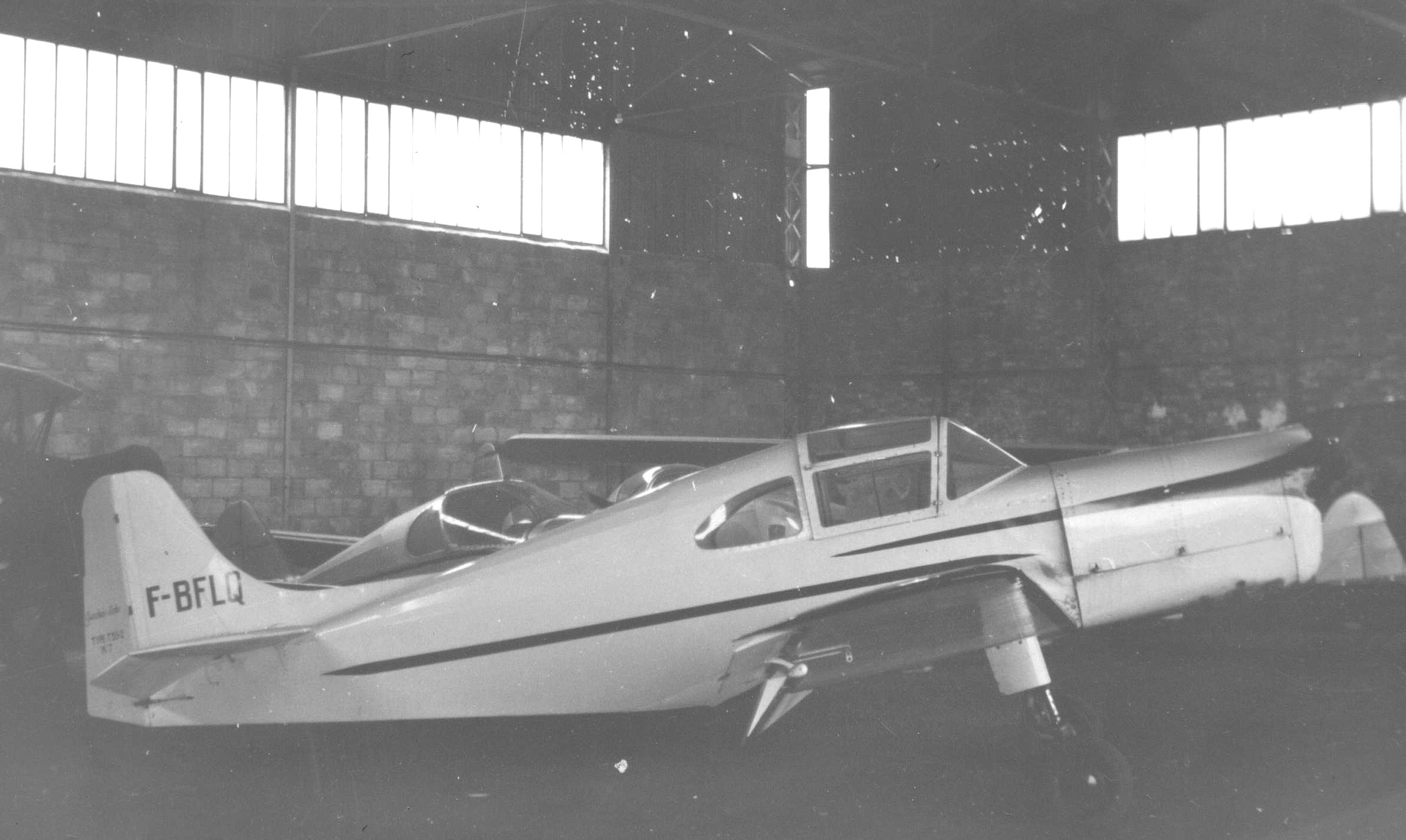 Guerchais-Roche T.35/II French-built light aircraft of the late 1940s